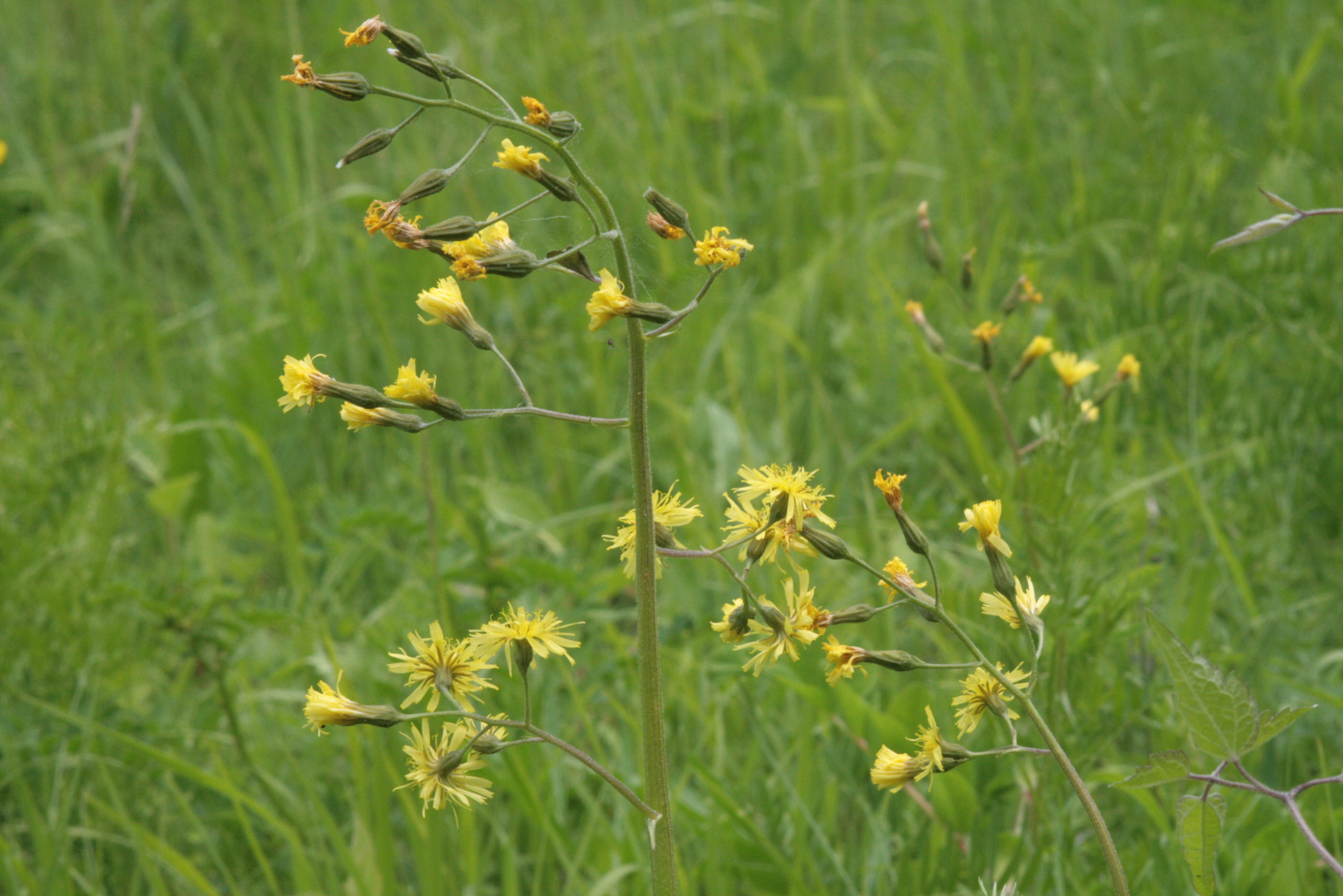 Crepis praemorsa